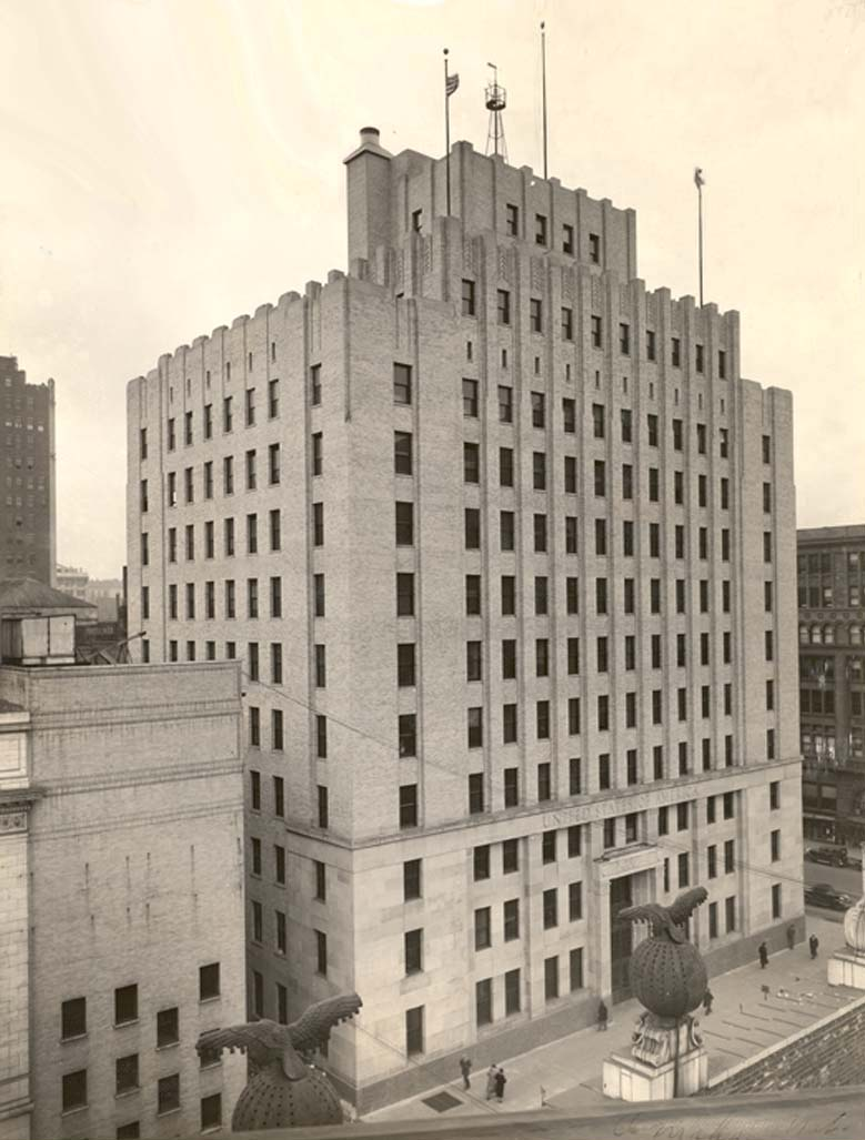 Completed in 1933. Architect: Kimball, Steele & Sandham and George B. Prinz The U.S. District Court for the District of Nebraska met here until the late 1950s or early 1960s. Still in use by the federal government.